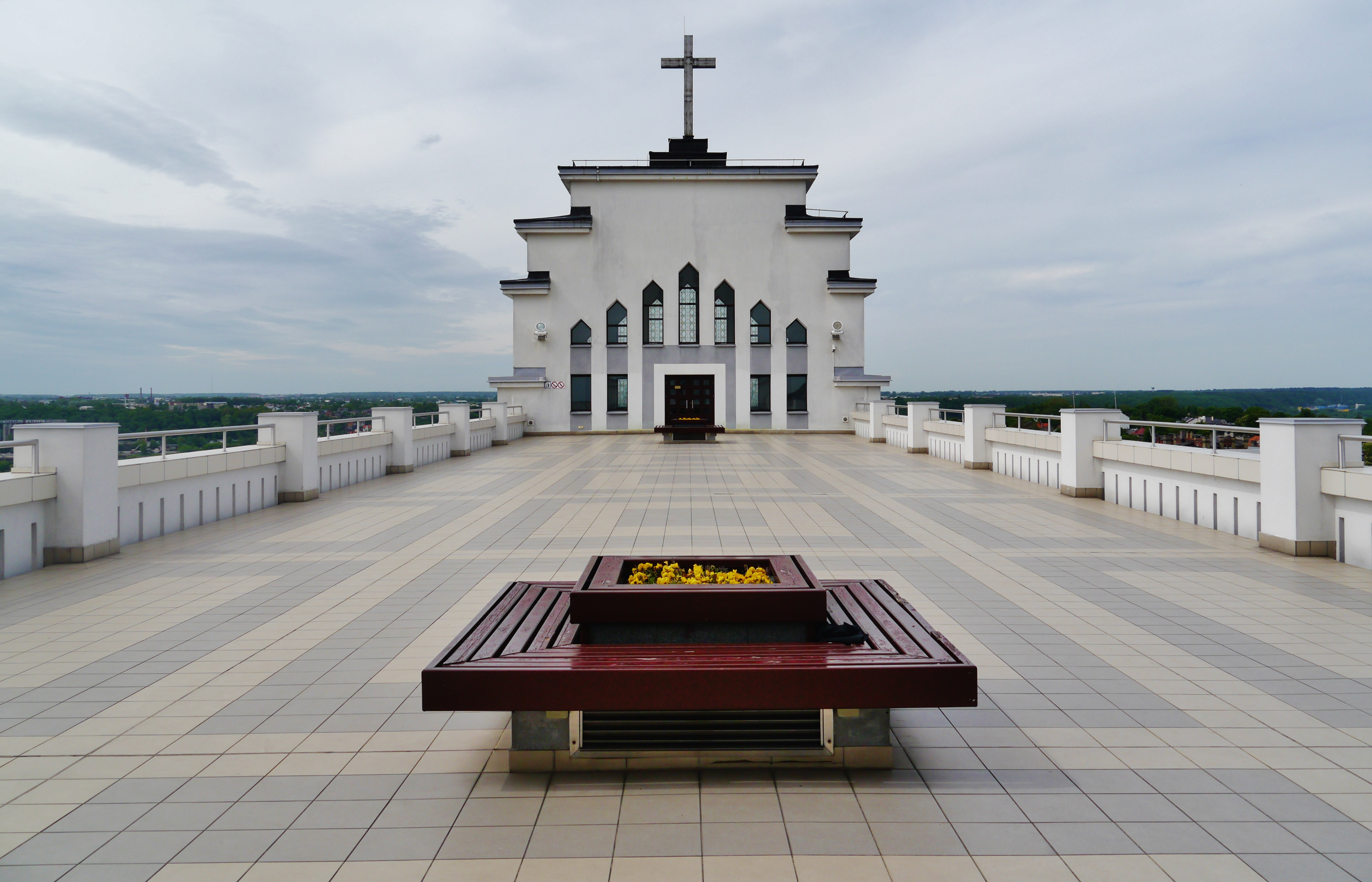 Chapel at the roof of the Church of Christ's Resurrection, Kaunas, Lithuania